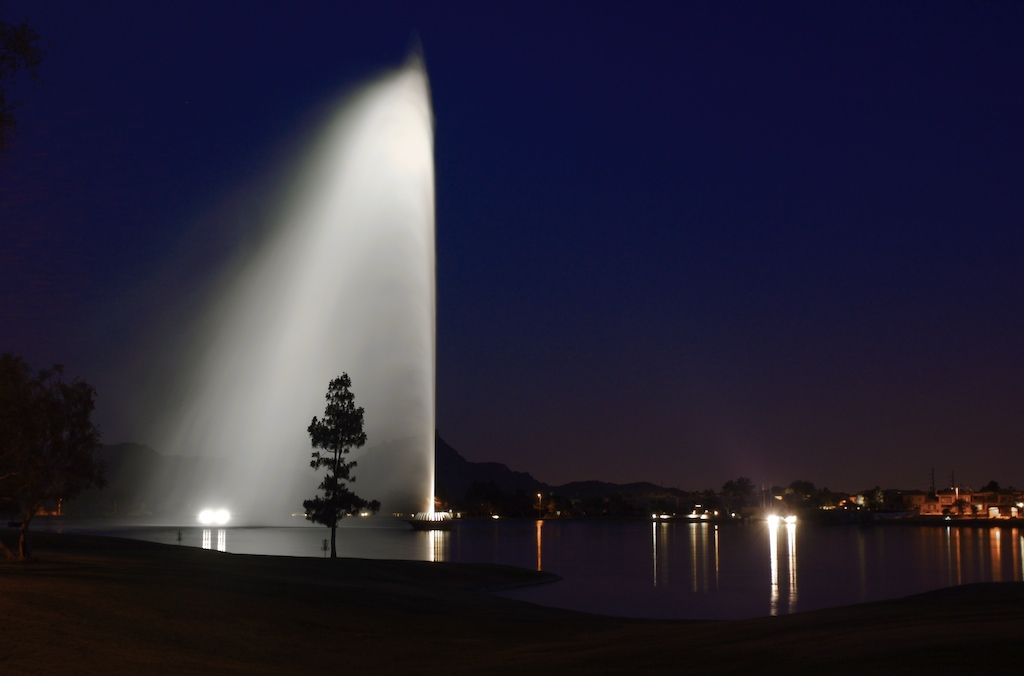 I own this work. I release this work to the public domain.